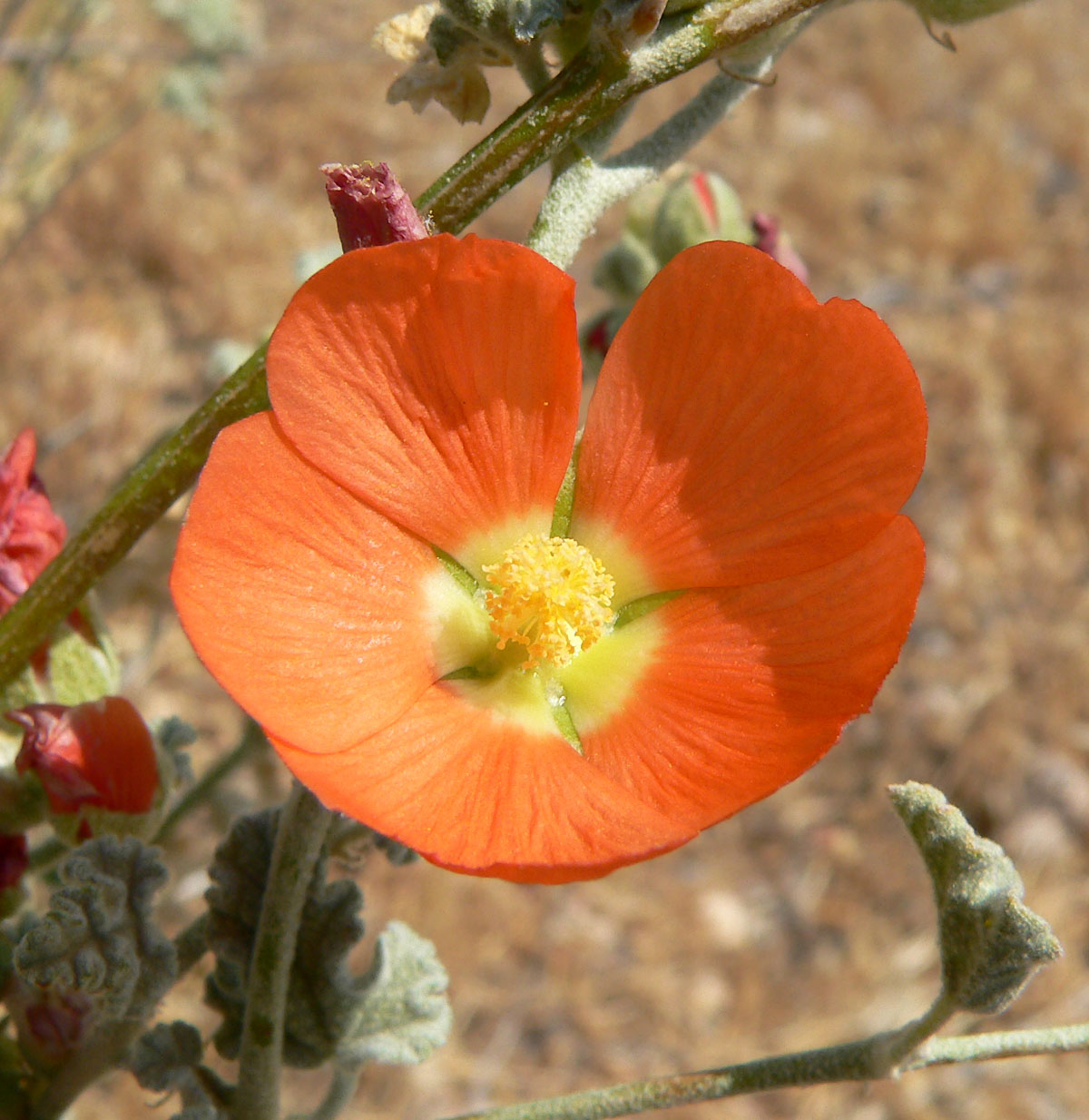 Sphaeralcea ambigua in Red Rock Canyon, southern Nevada